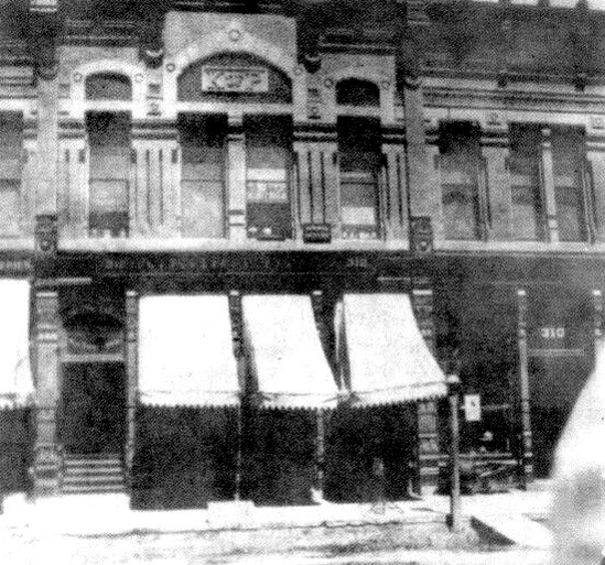 Knights of Pythias Hall in Cheyenne, Wyoming in around 1900